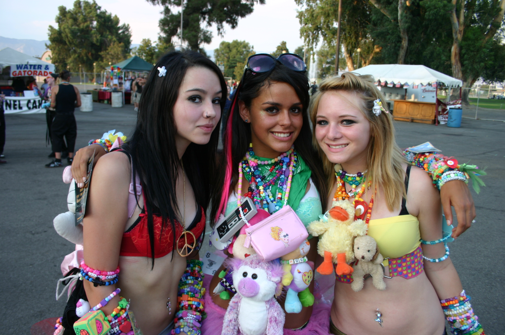 Groovy Rave Dance Party 2007